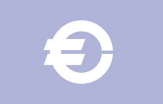 Flag of Shimogo Fukushima